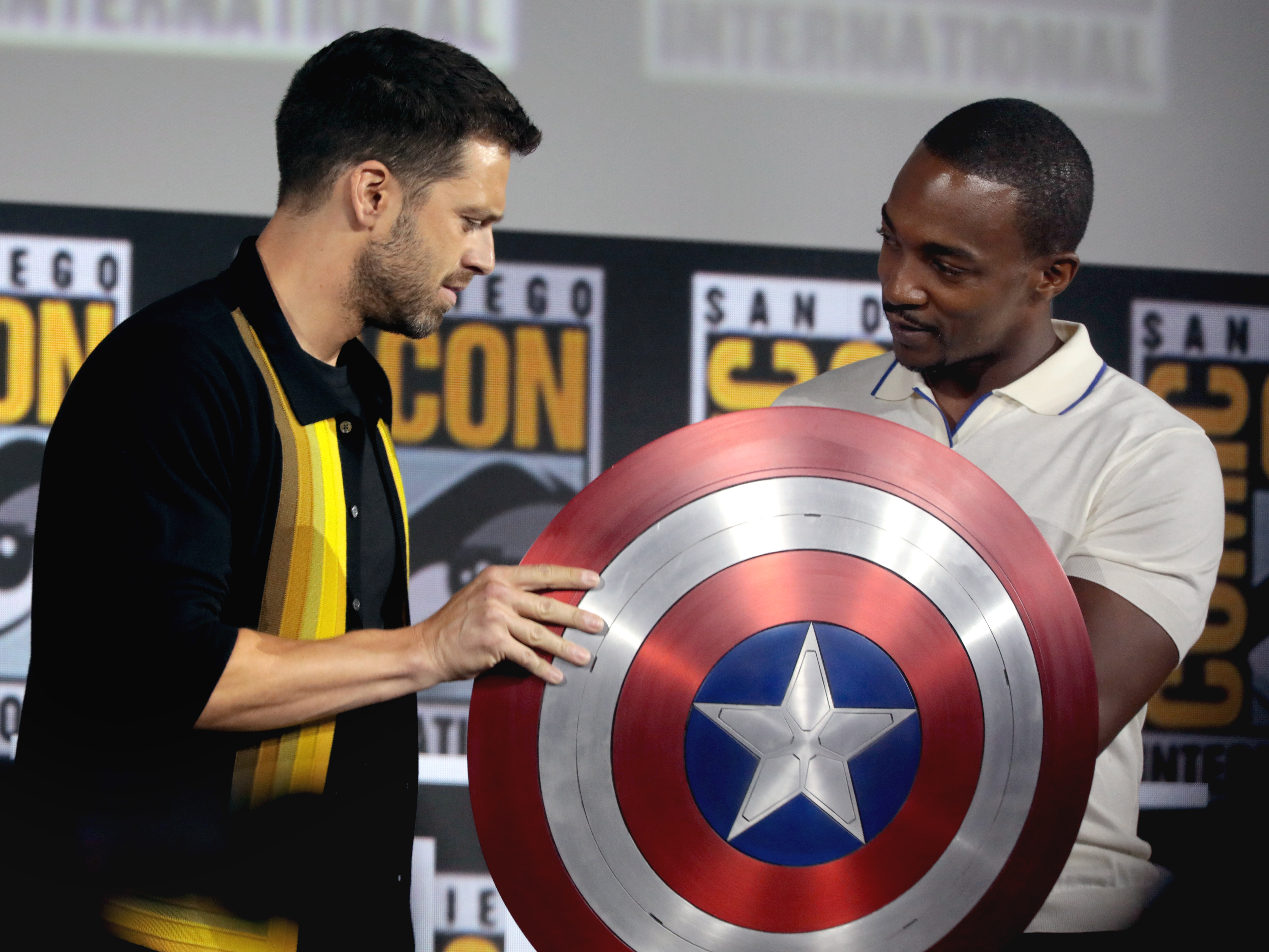 Sebastian Stan and Anthony Mackie speaking at the 2019 San Diego Comic Con International, for "The Falcon and the Winter Soldier", at the San Diego Convention Center in San Diego, California.